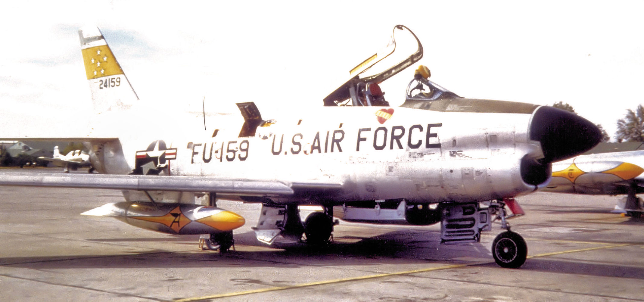 5th Fighter-Interceptor Squadron North American F-86D-45-NA Sabre 52-4159, McGuire Air Force Base, New Jersey, 1955